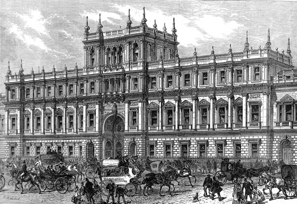 The street facade of the Piccadilly wing of Burlington House in London, England. Illustrated London News, 1873.